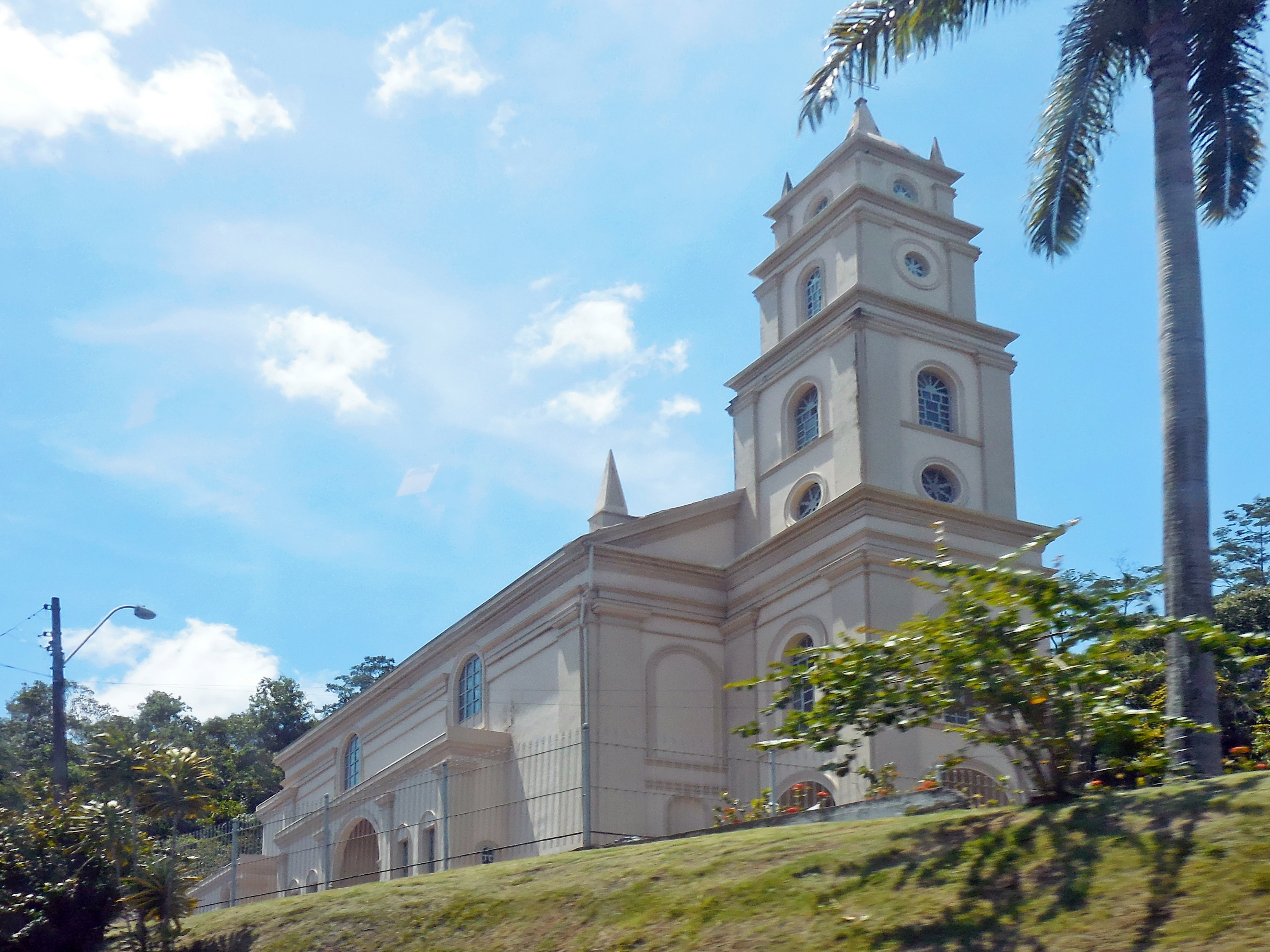 Partial view of the Saint Mark Mother Church, in Ibiraçu, Espírito Santo, Brazil.